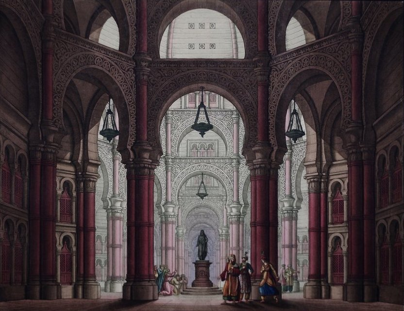 "Tempio di Mecca". Set design by Alessandro Sanquirico for Act I of Francesco Clerico's ballet "Maometto", created at La Scala, Milan, primavera 1822, music by Paolo Brambilla. Coloured aquatint by L. Castellini after a drawing by set designer Alessandro Sanquirico. Inscription : (in Italian) Tempio di Mecca. Questa scena fu eseguita pel ballo tragico, Maometto, composto e sesso sulle scene dell'I. R. Teatro alla Scala da Francesco Clerico, la primavera dell'anno 1822. A. Sanquirico inv. e dip. L. Castellini inc.